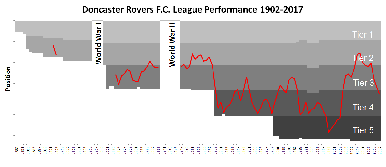 Chart showing Doncaster Rovers league and nonleague performance